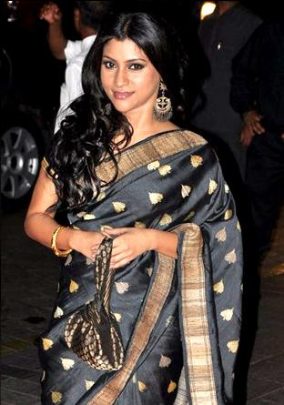 Sen Sharma at Karan johar Birthday bash